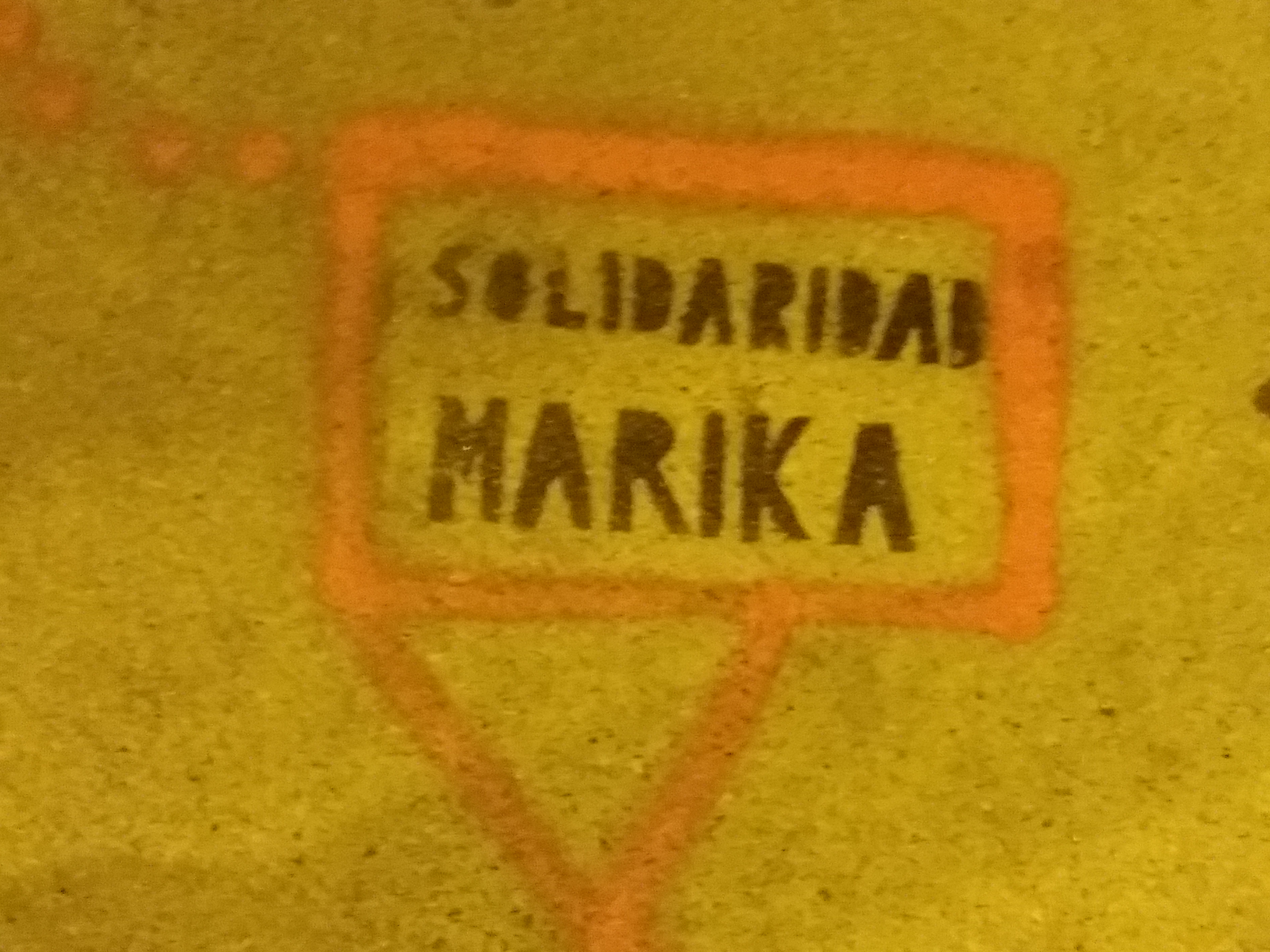 Anarco-queer graffiti in Lavapiés, Madrid, Spain.